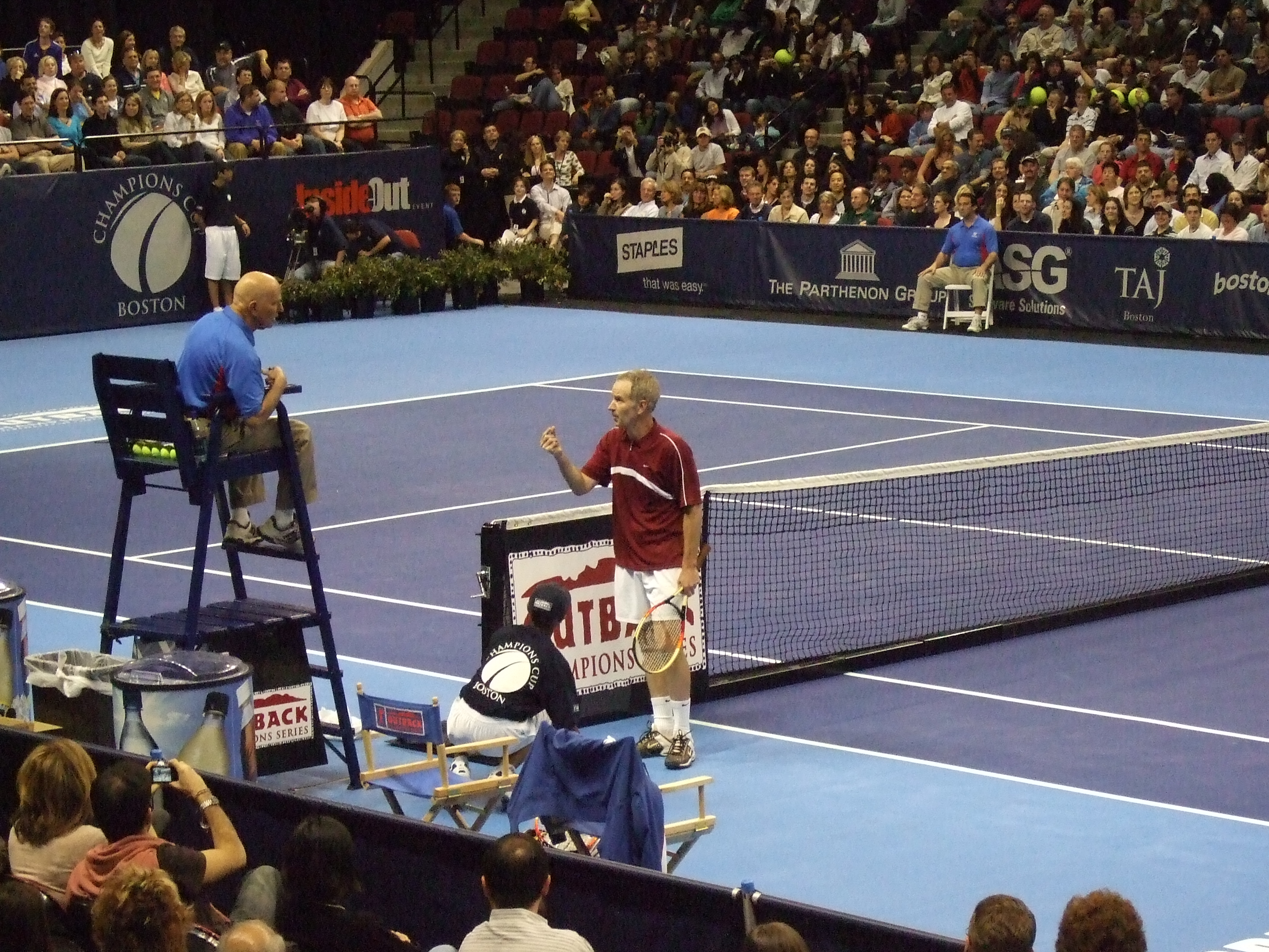 John McEnroe, arguing with umpire. Champions Cup Boston